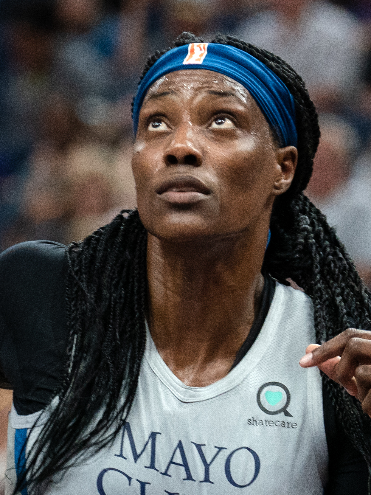 Minnesota Lynx vs Washington Mystics on July 24 2019 at Target Center in Minneapolis, Minnesota; the Mystics won the game 79-71.